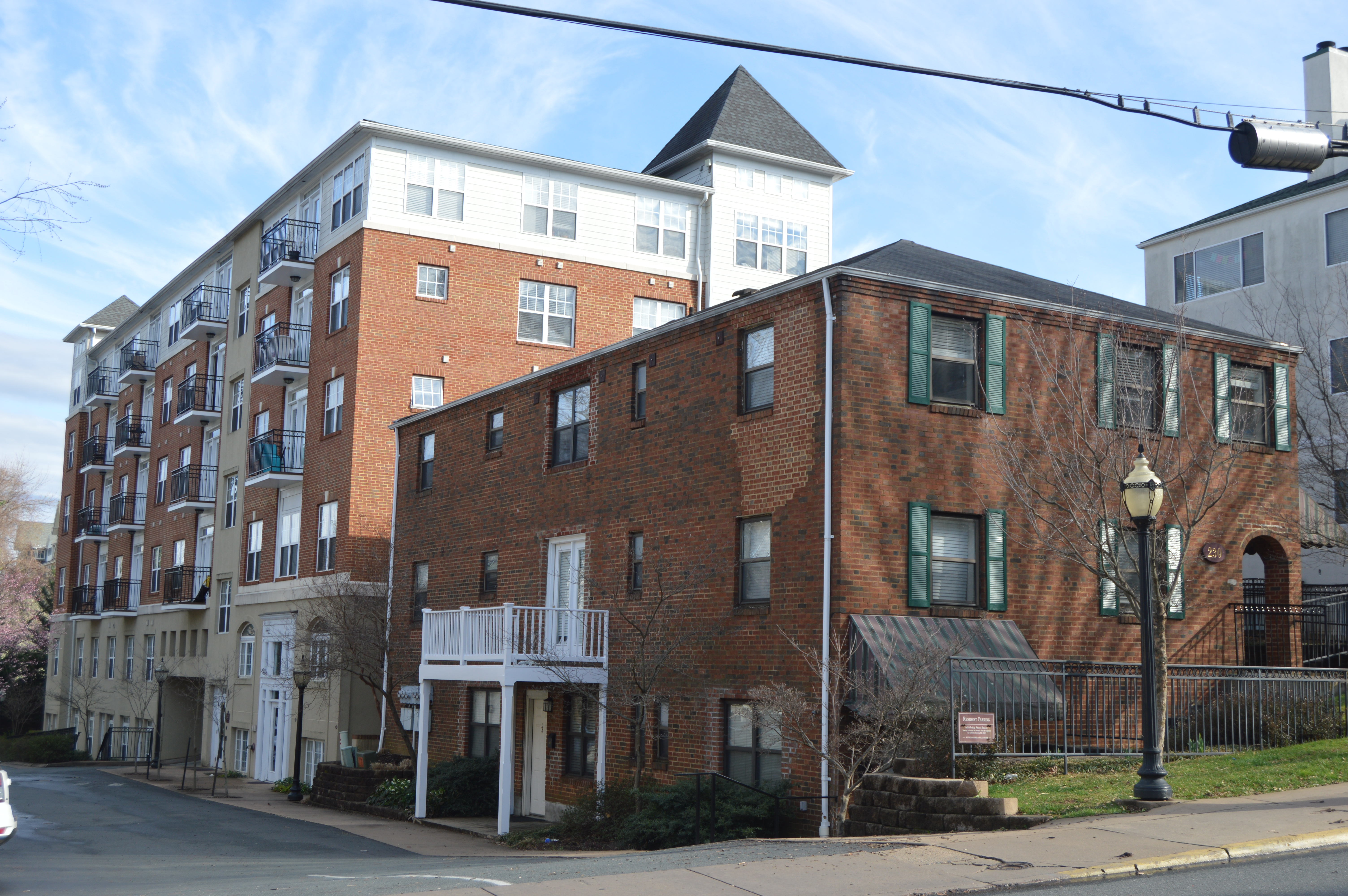 Buildings on the eastern side of the 200 block of Fourteenth Street Northwest in Charlottesville, Virginia, United States. This was formerly the site of the McConnell-Neve House, which was listed on the National Register of Historic Places in 1983; although no longer standing, the house officially remains on the Register.